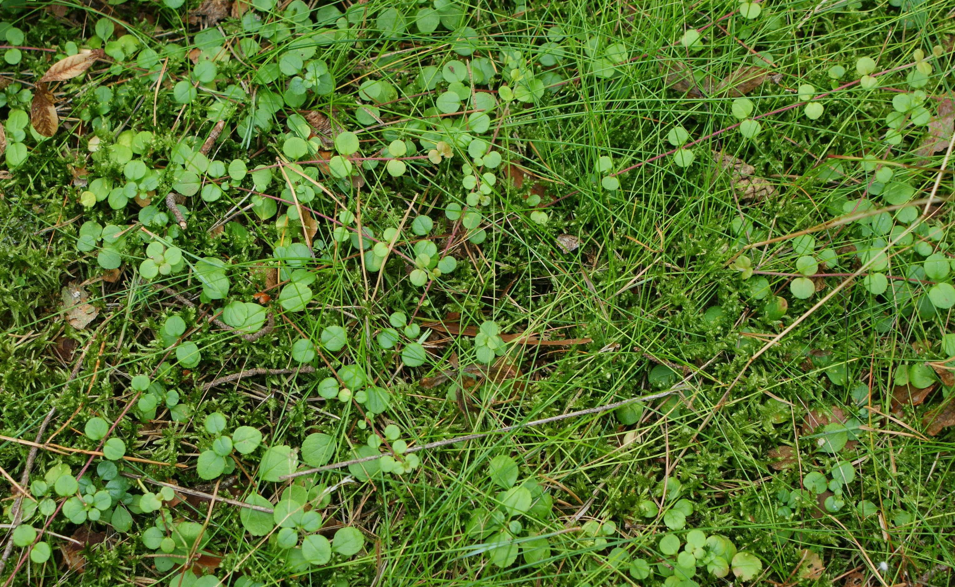 Linnaea borealis, Wolinski National Park (NW Poland)